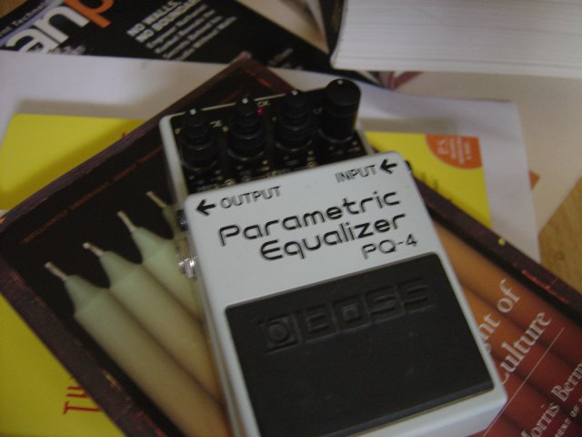 Rare Boss pedal. Pretty neat, really.